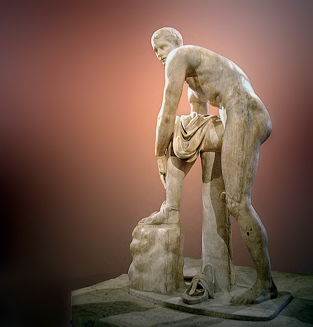 Youth untying his sandal, so-called “Sandalbinder Hermes”. Left arm and shoulder, right forearm and thigh, part of the chlamys and the plinth are modern restorations; the ploughshare at the base of the rock is a modern addition based on an errouneous identification with L. Quinctius Cincinnatus; the head is ancient but may be nonpertinent to the statue. Pentelic marble (body), Roman copy of the 2nd century CE after a Greek original of the late 4th century BC. From the Theater of Marcellus in Rome.